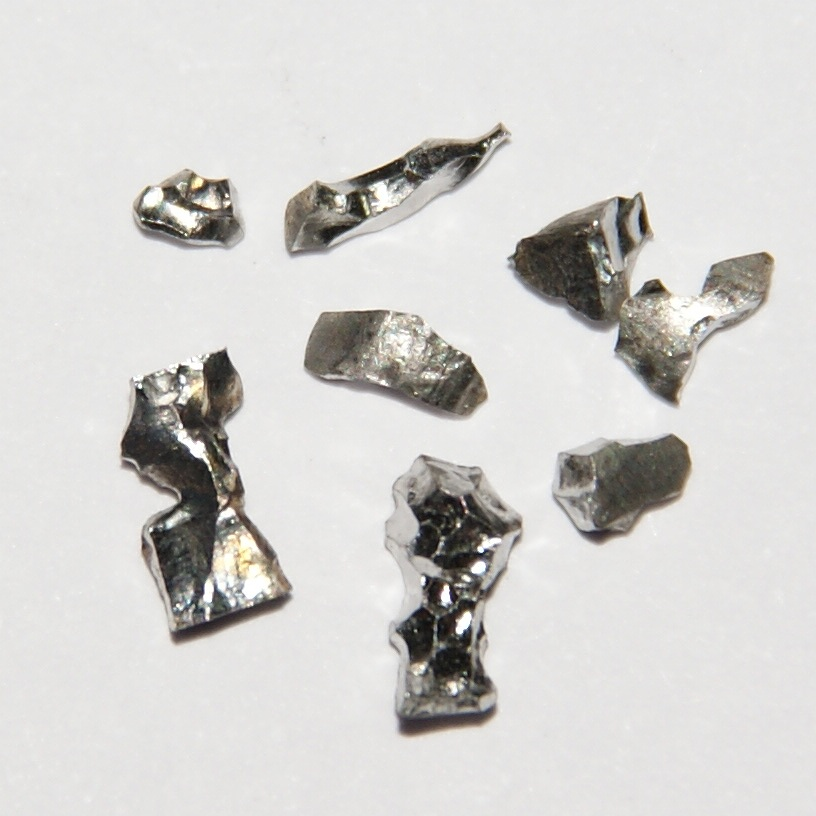 Iridium is a very hard, heavy, rare and expensive silvery metal and the most noble of all metals. It hardly reacts, but as a fine powder it is flammable. It is used is special alloys and as a catalyst. The meteorite, which 65 million years ago played a key role in the extinction of the dinosaurs, contained relatively much iridium. This can still be observed in sediment layers from this time.